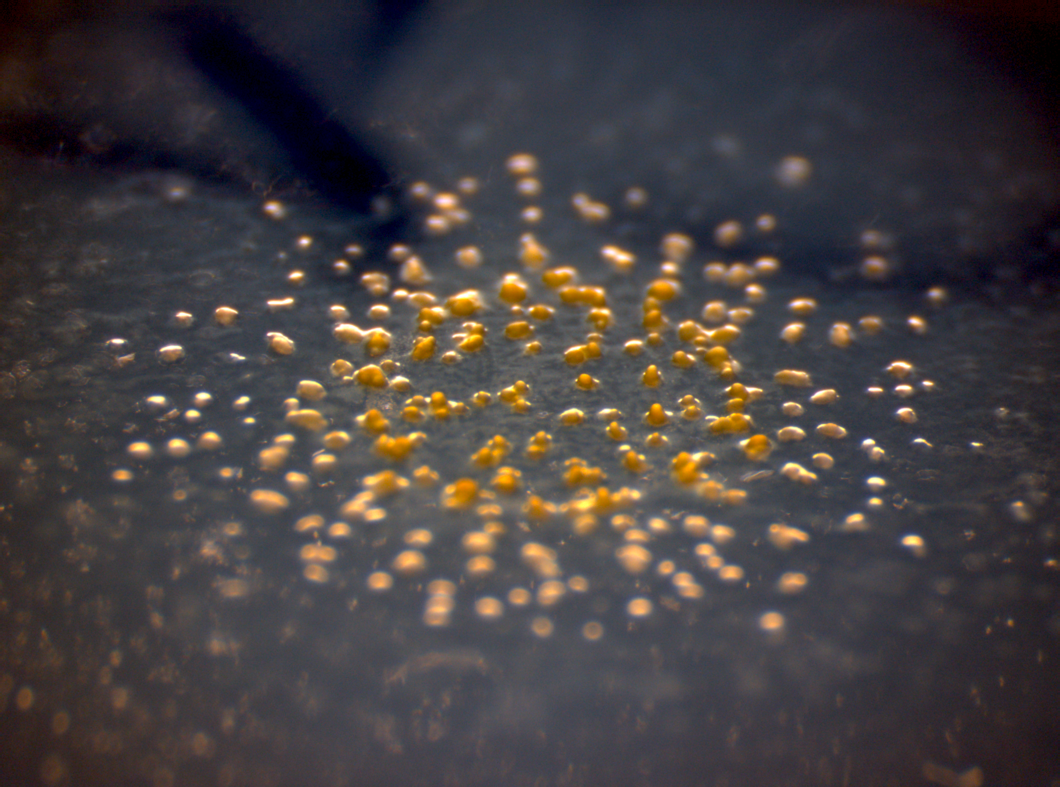 Starving colony of Myxococcus xanthus forms fruiting bodies.